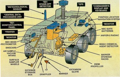 The schematic shows important components of the M93A1 FOX. Entries in black boxes are components that have been added to the original version. GPS indicates the location of the global positioning system instrument.